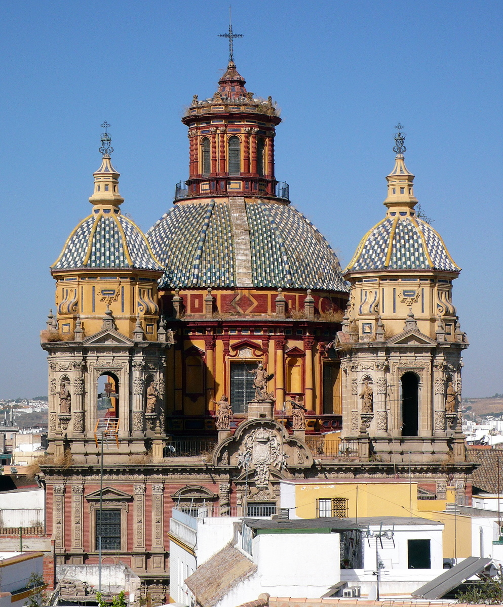 Church of San Luis de los Franceses, Seville, Spain.